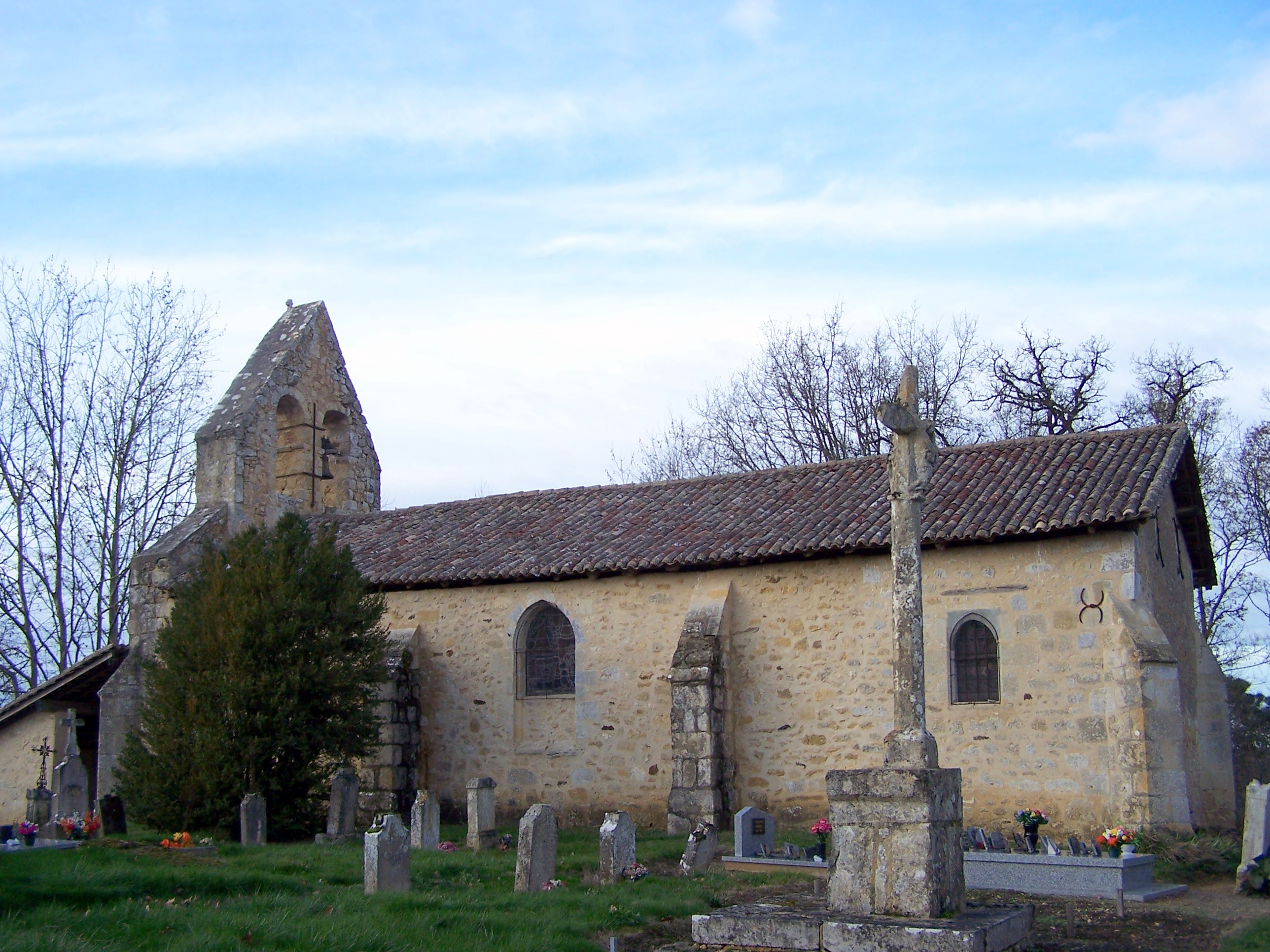 Church of Aillas-le-Vieux in Sigalens (Gironde, France)